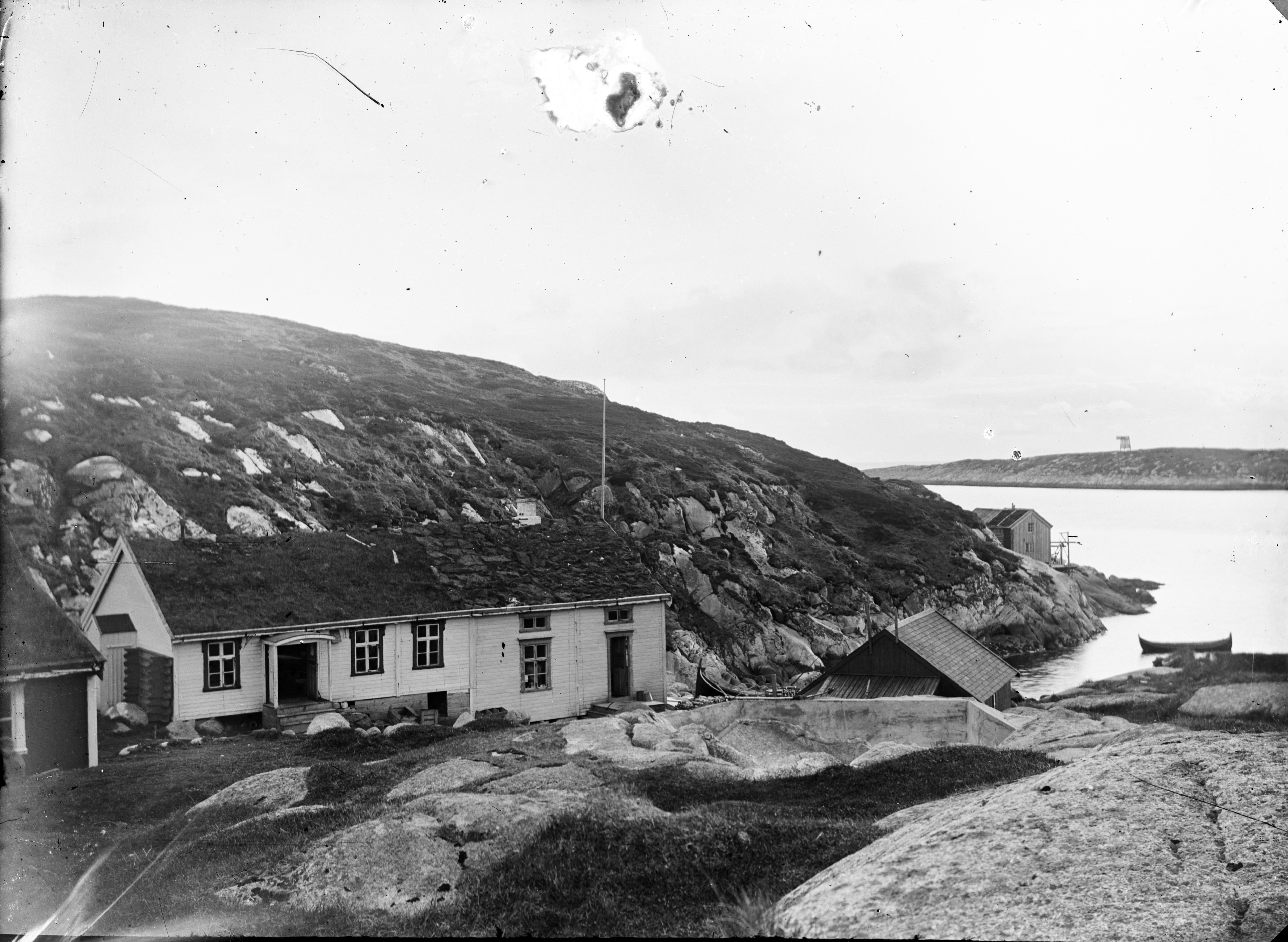 SFFf-1988007.0040 Photographer: Anders Folkestadås Date: ca 1900-1910. Medium: Glassplate negative Extent: 8 x 11 cm